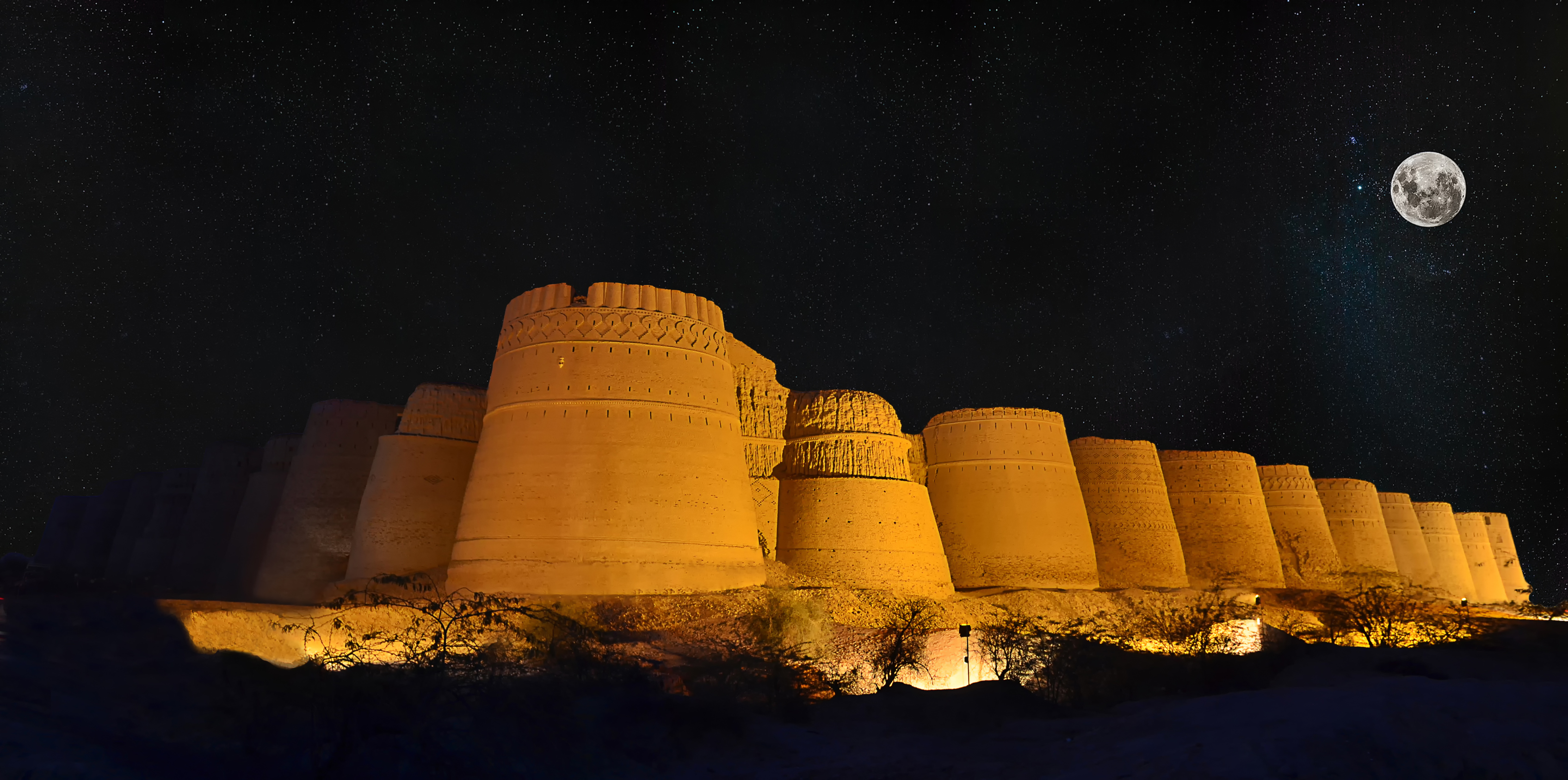 Derawar Fort This is a photo of a monument in Pakistan identified as the PB-U-5